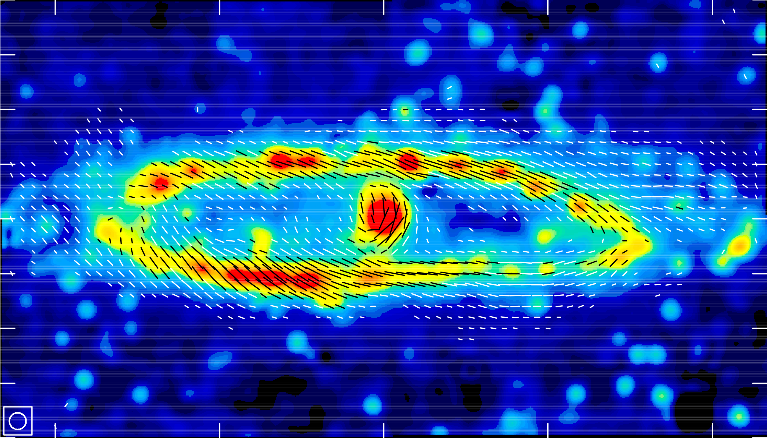 Fig. 6. Total intensity I (in colour) of M 31 at λ6.2 cm smoothed to 3′ HPBW, in coordinates along the major and minor axes of M 31. The rms noise is 0.35 mJy beam−1. The lines show the apparent magnetic field orientations (not corrected for Faraday rotation) at the same resolution with lengths proportional to polarized intensity PI, where the length of a beam width corresponds to 1.5 mJy beam−1. No lines are plotted where PI is below 0.3 mJy beam−1 or where I is negative. Background sources have been subtracted. The HPBW is indicated in the bottom left corner.